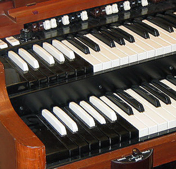 Preset section of a Hammond B3